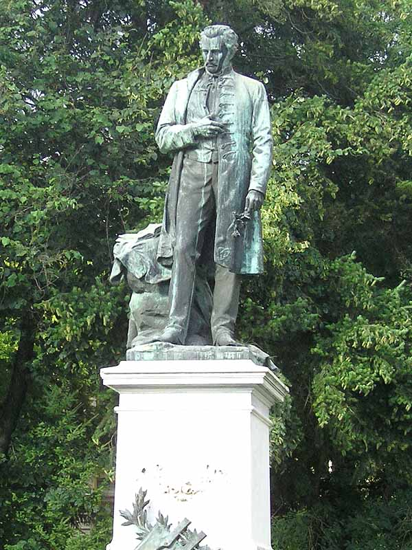 A Statue of the Hungarian poet Tompa Mihaly. Sculptor:Barnabás Holló (1902)